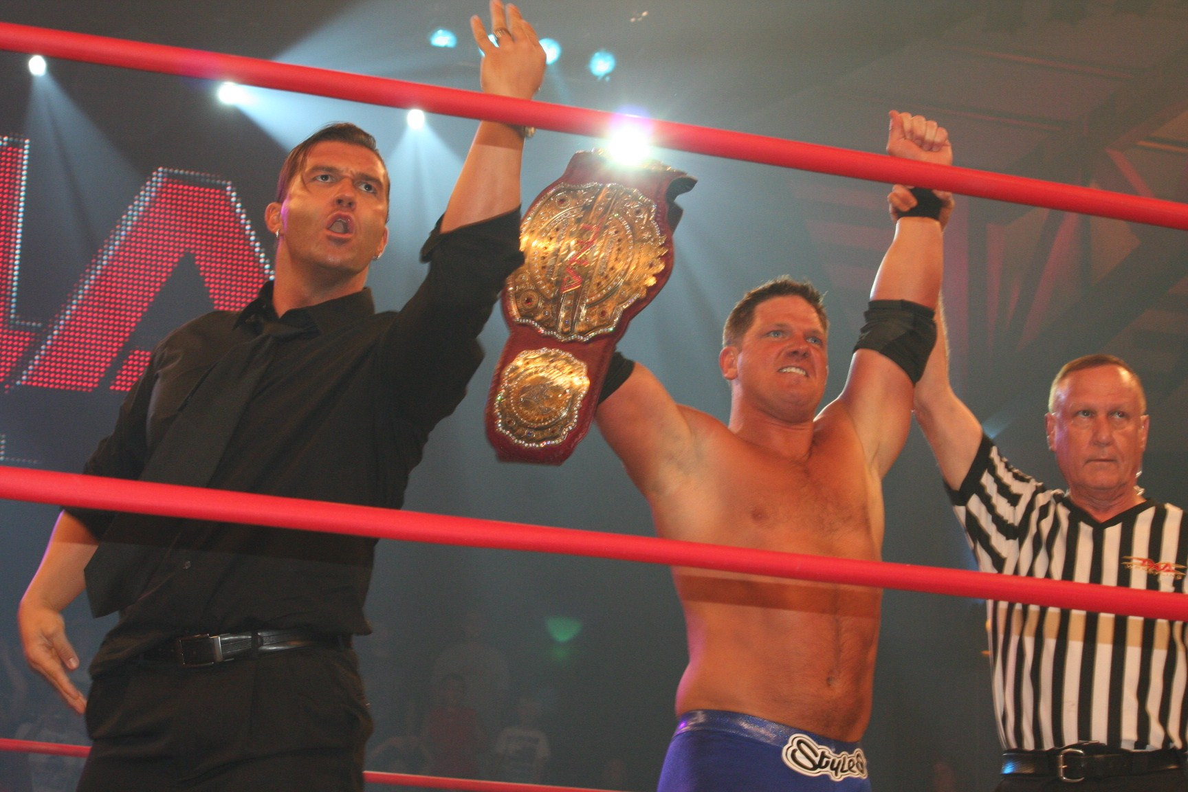 Professional wrestlers Frankie Kazarian and A.J. Styles during a TNA Impact! taping